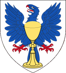 Arms of the Carnegie family, of Southesk